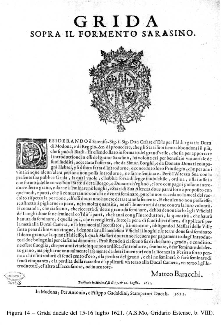 Grida sopra il formento saracino, by Cesare d'Este, Modena, 1621